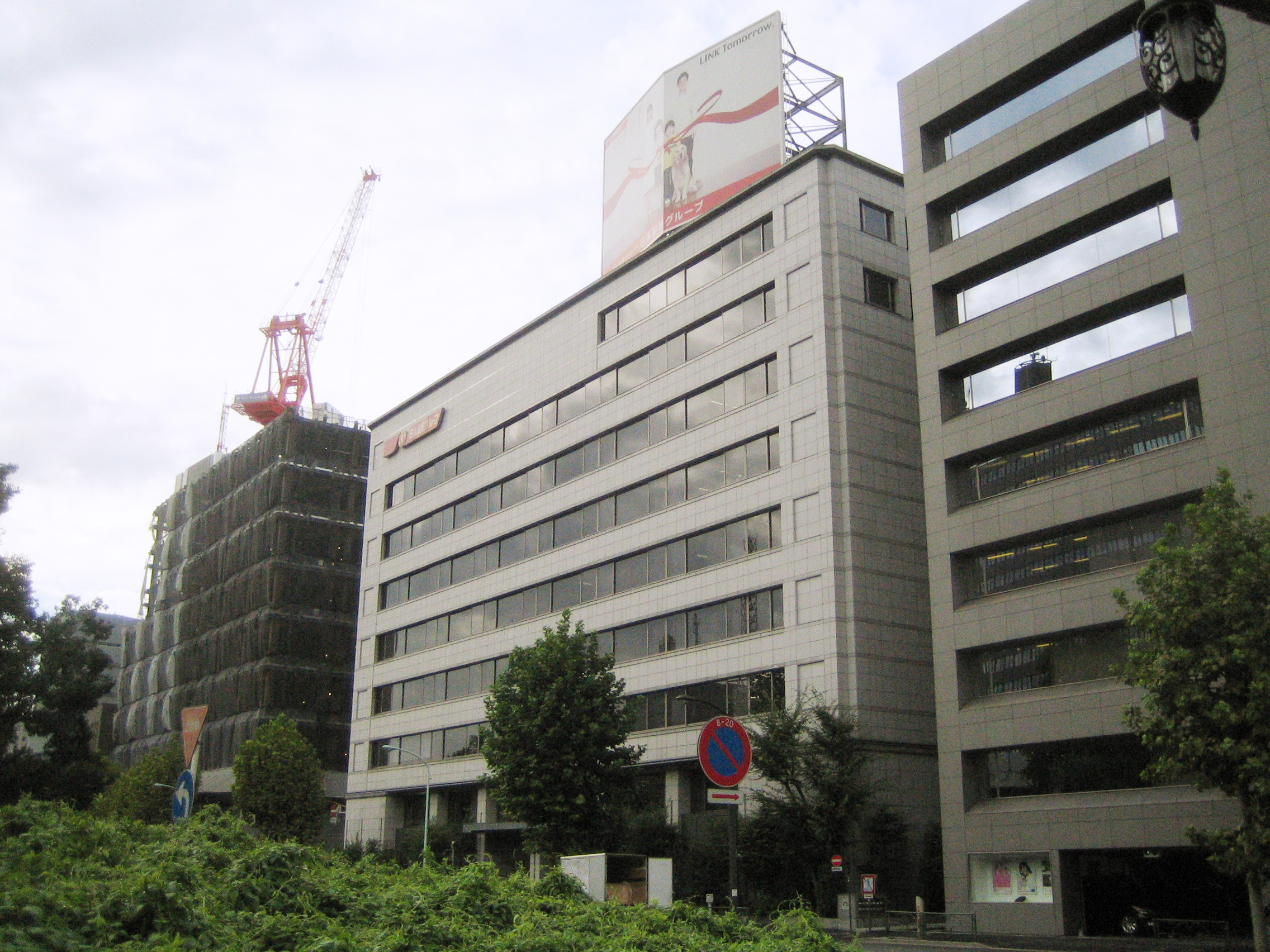 日清製粉グループ本社。東京都千代田区神田錦町 Nisshin Seifun Group Incorporated (日清製粉グループ本社), at kanda-Nishikicho, Chiyoda, Tokyo, Japan